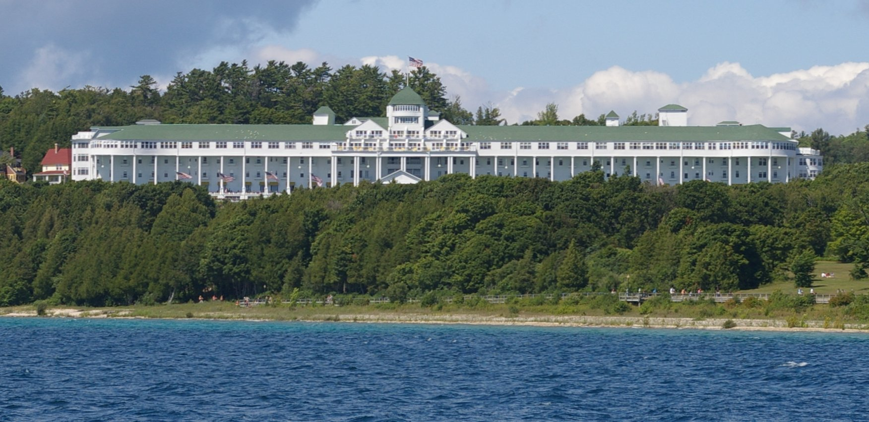 A view of the Grand Hotel from a ferry.